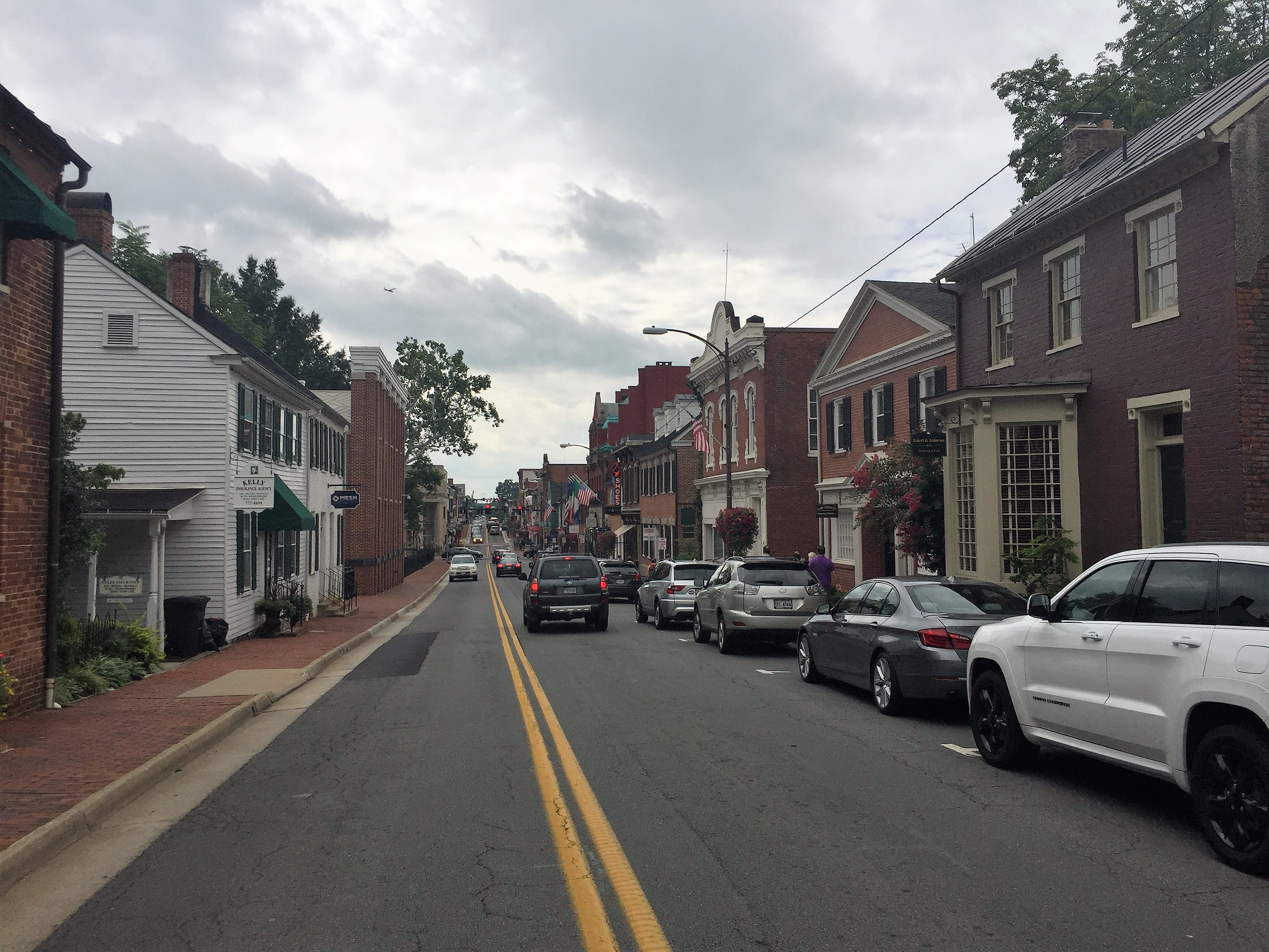 N. King Street in the historic district of Leesburg, Virginia